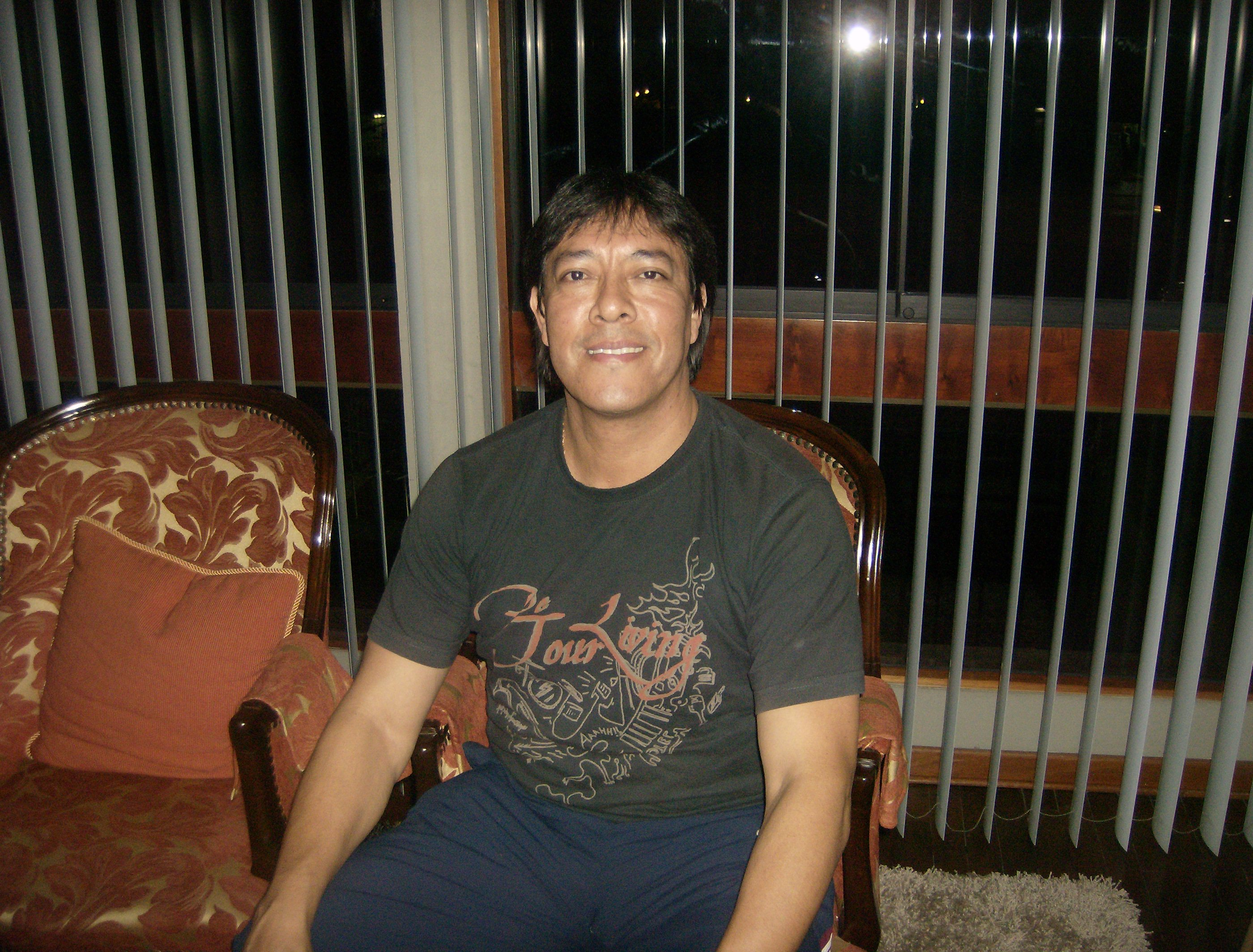 This is a photo of Eduardo Malasquez taken in July 2011.